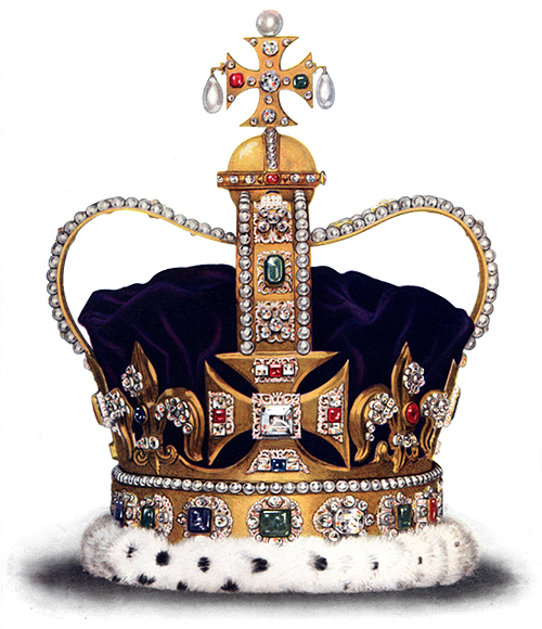 St Edward's Crown